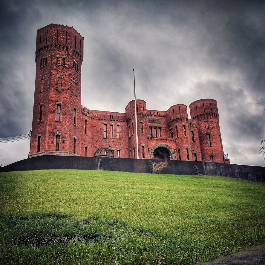 A front view of the Amsterdam Armory, in Amsterdam, NY